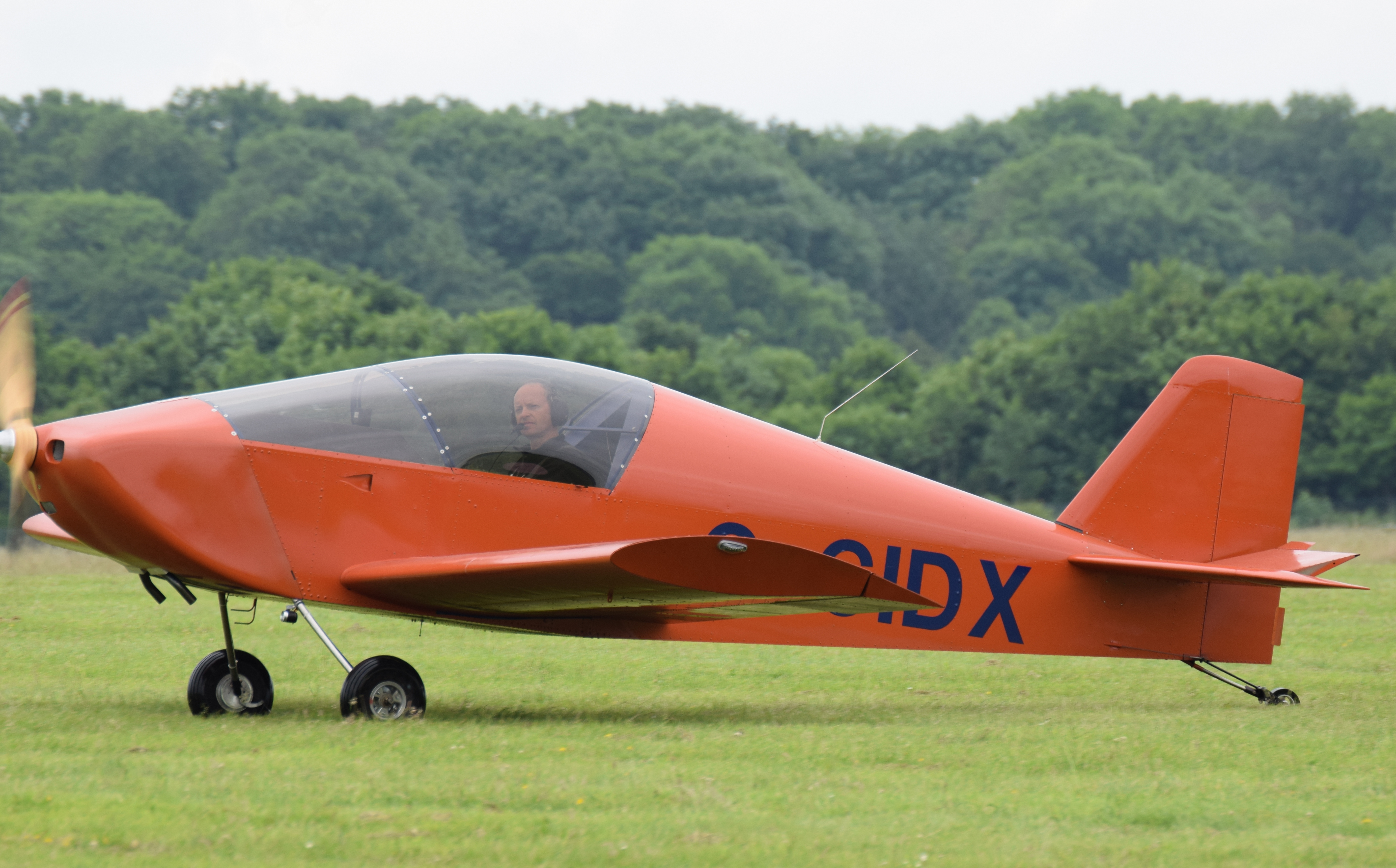 Sonex Aircraft Sonex (kit build) at Cotswold Airport, Gloucestershire, England. UK registration G-CIDX. Date of build 2015.